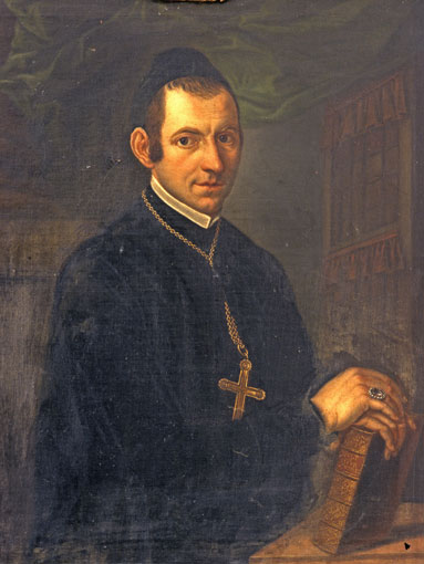 The benedictine and abbot Rupert Kornmann (1757-1817)